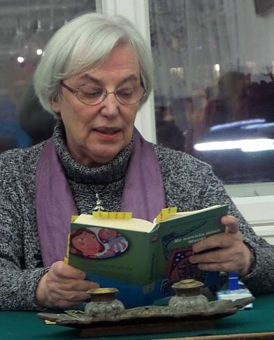 Rosemarie Philomena Sebek 2013